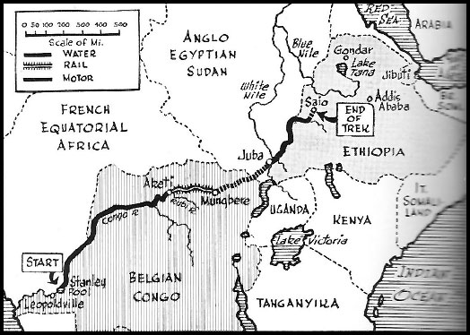 Map showing the journey of Belgium's expeditionary force from Leopoldville to Saio during the East African Campaign of World War II